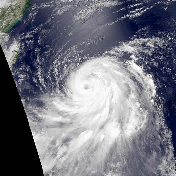 Typhoon Irma on June 28, 1985. At the time Irma had winds of 82.1 knts (94.5 mph, 152.1 kph), 1-min sustained and a pressure of 965 mbar. Irma was about 500 miles away from land and 62 hours away from landfall. This image was taken by the NOAA-9 Satellite.